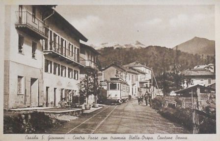 Cossila San Giovanni